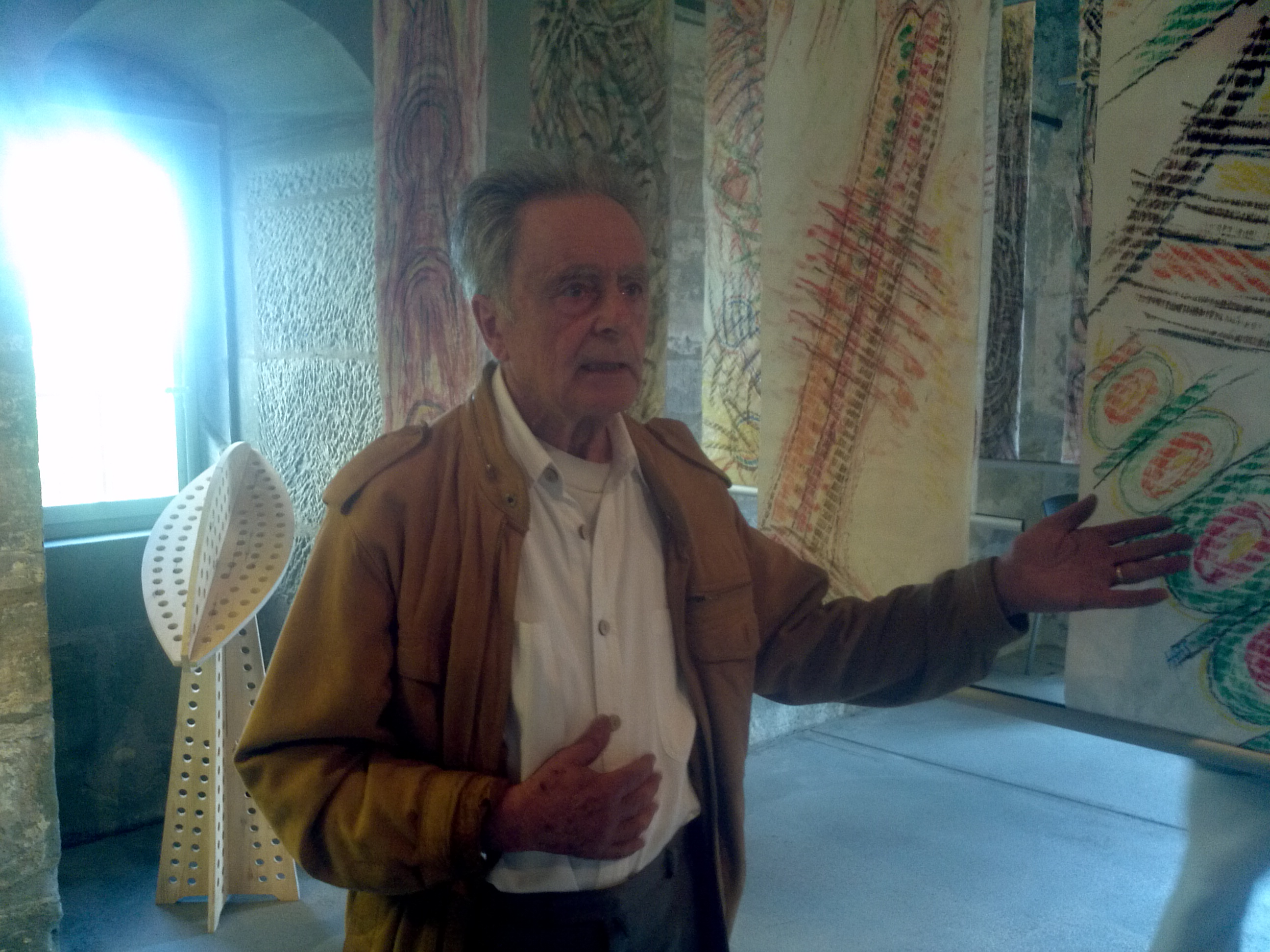 Hafis Bertschinger in Gutenberg Museum, Fribourg, Switzerland during the press conference for the exhibition „Mit Hafis um die Welt“